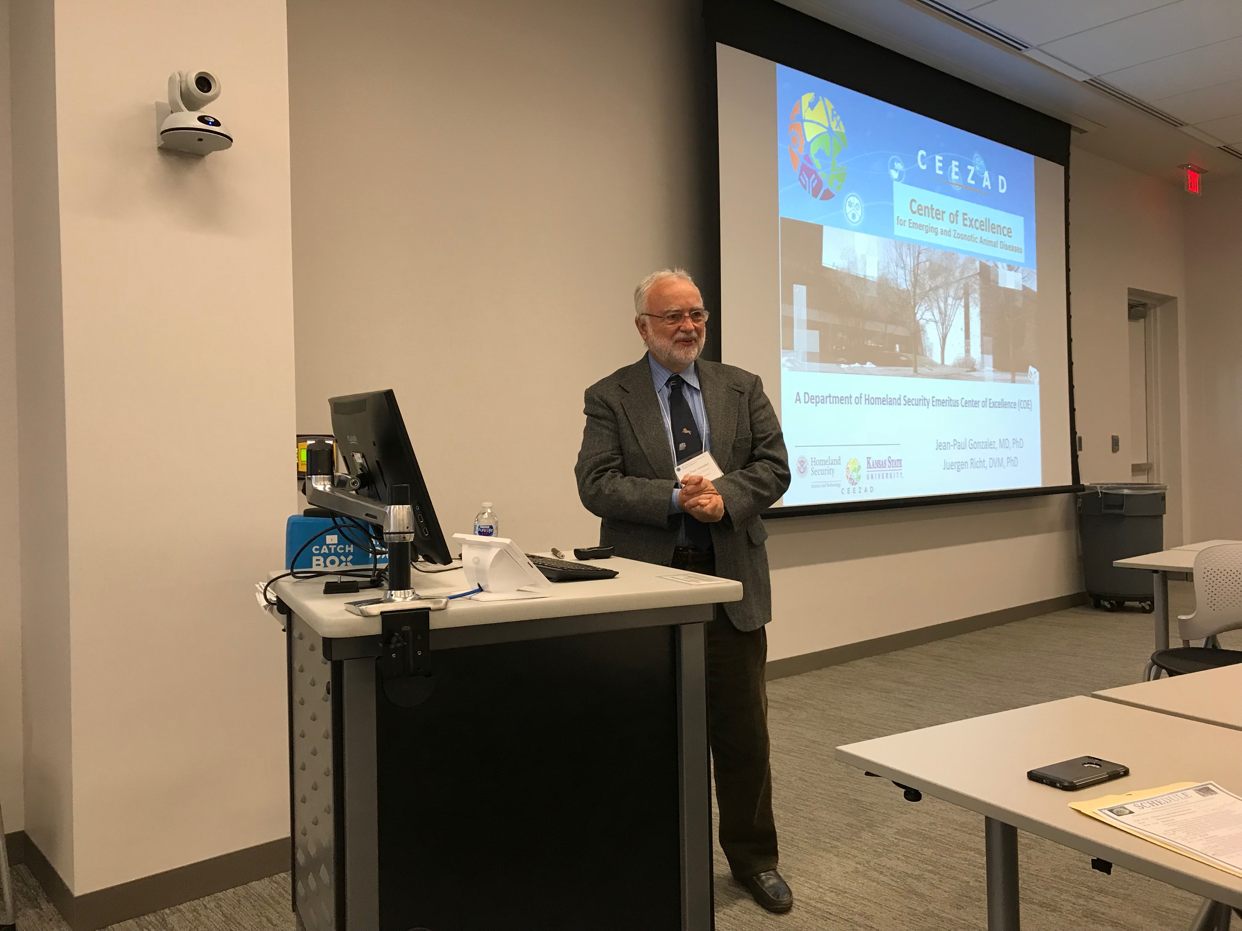 Jean Paul Gonzalez during CEEZAD Conference